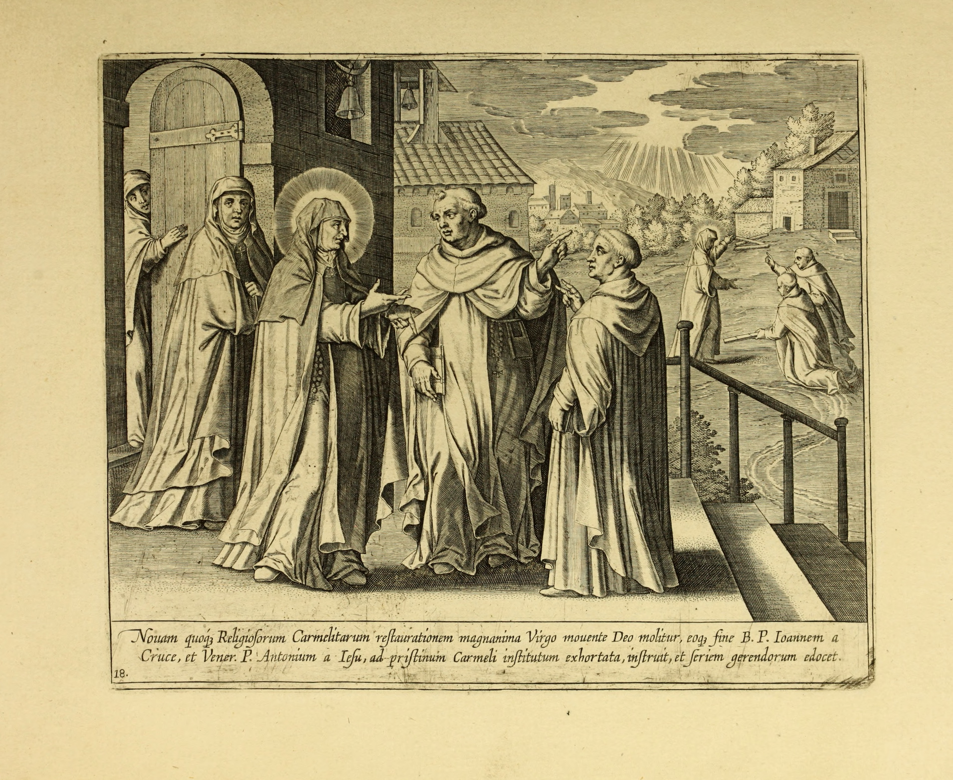 Internet Archive: Originally published in 1613?